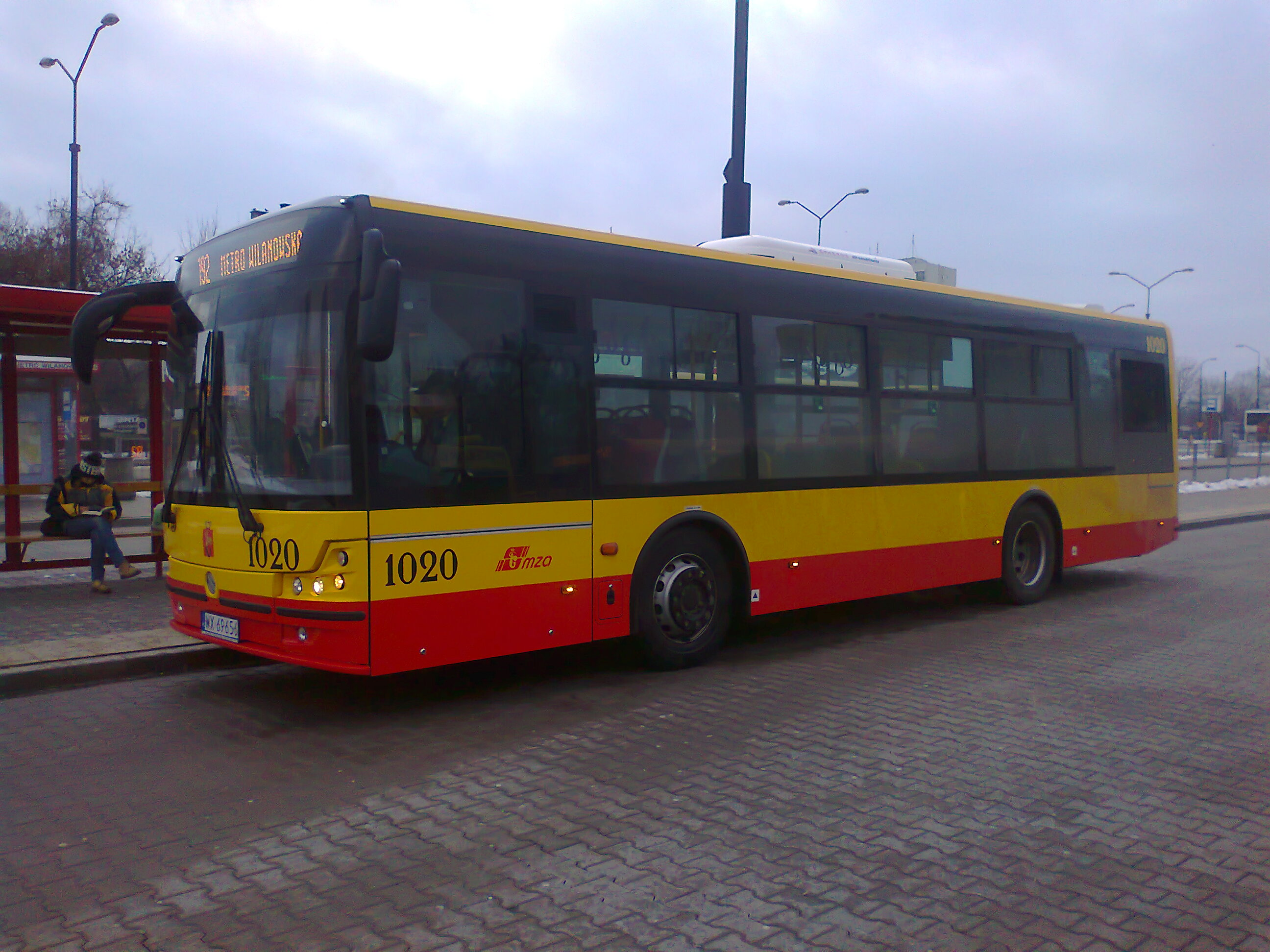 Solbus Solcity 10 bus (#1020, reg. WX 69656) in Warsaw, Poland. Built 2011, MZA Warszawa operator.